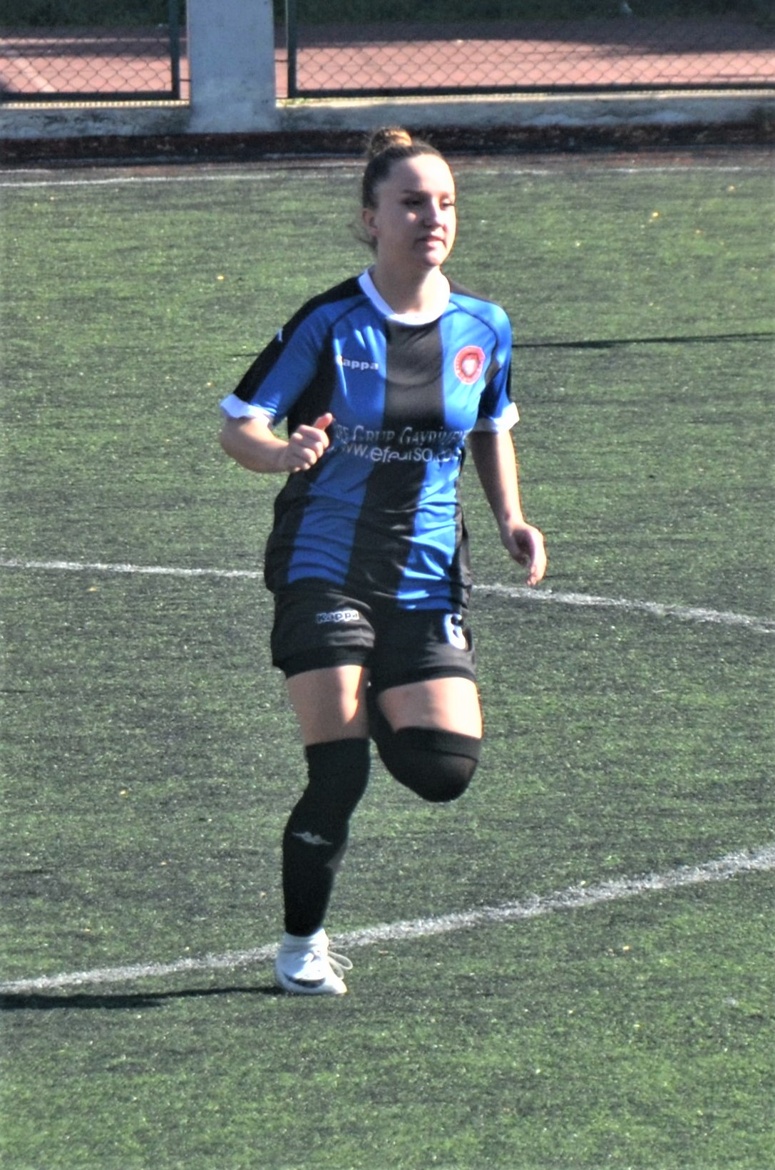 Bilge Su Koyun playing for Fatih Vatan Spor in the 2018-19 First League home match against Ataşehir Belediyespor.